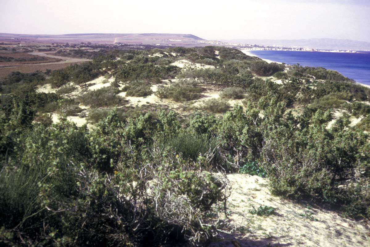 Littoral dunes of Macta near the current estuary of the oued Macta in 1975 (Oranie, Algeria).